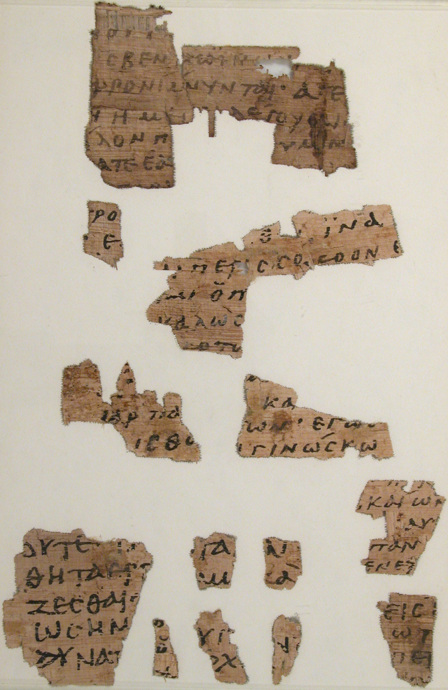 Papyrus 44 Metropolitan Museum of Art 14.1.527 Matthew 17-18,25 John 9,10. This side shows Matt 25:8-10; John 10:8-14